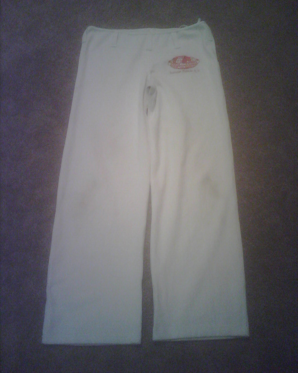 Abada pants